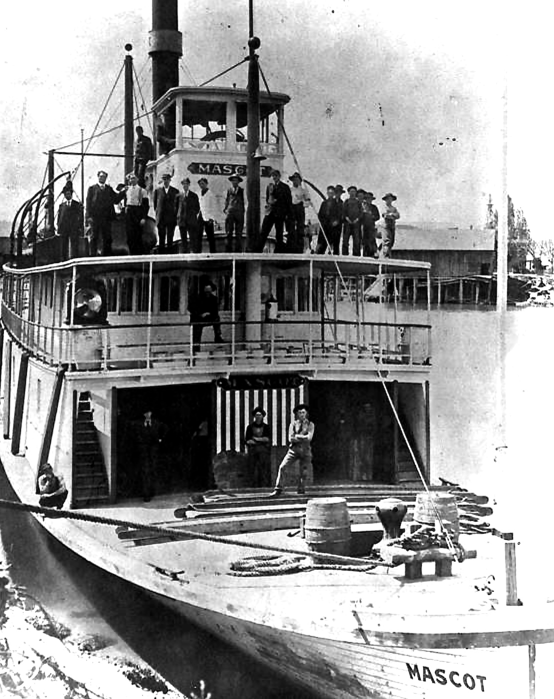 The sternwheeler Mascot tied to a riverbank, possibly at La Center, Washington, circa 1900. Posed photo of officers and crew, mostly standing on upper decks.